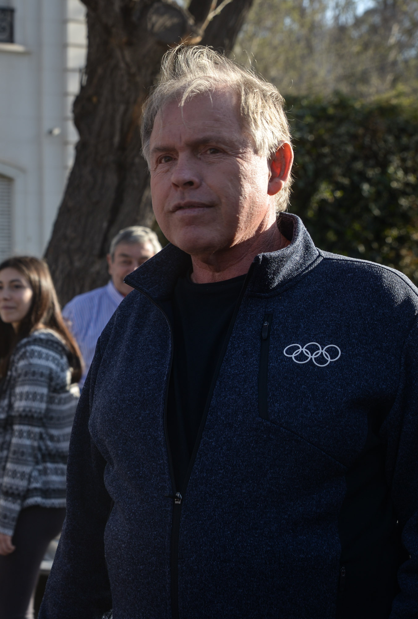 The mayor of Mendoza, Rodolfo Suarez, alongside the President of the Argentine Olympic Committee during the torch relay of the 2018 Summer Youth Olympics.